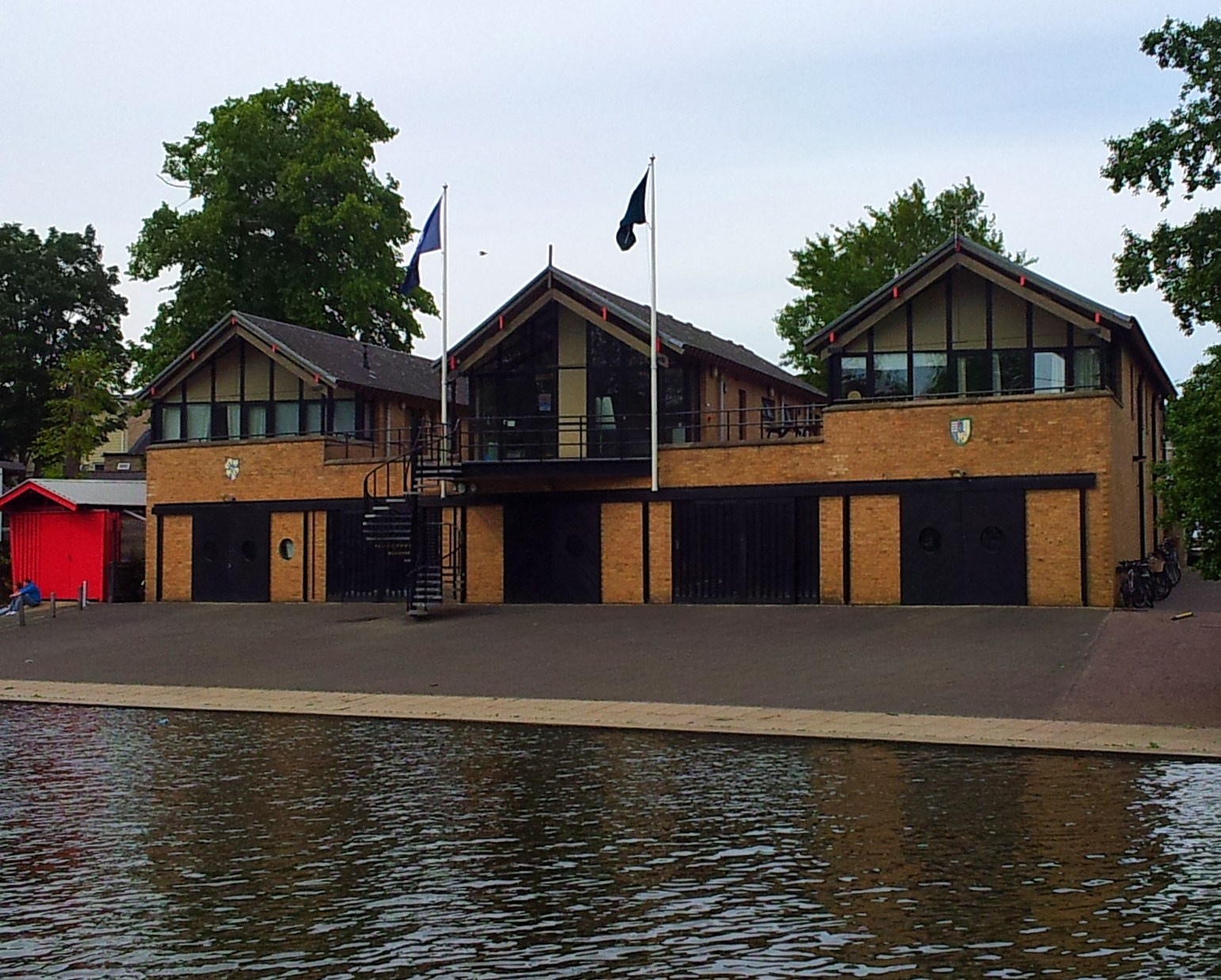 Boathouse of Queens' College